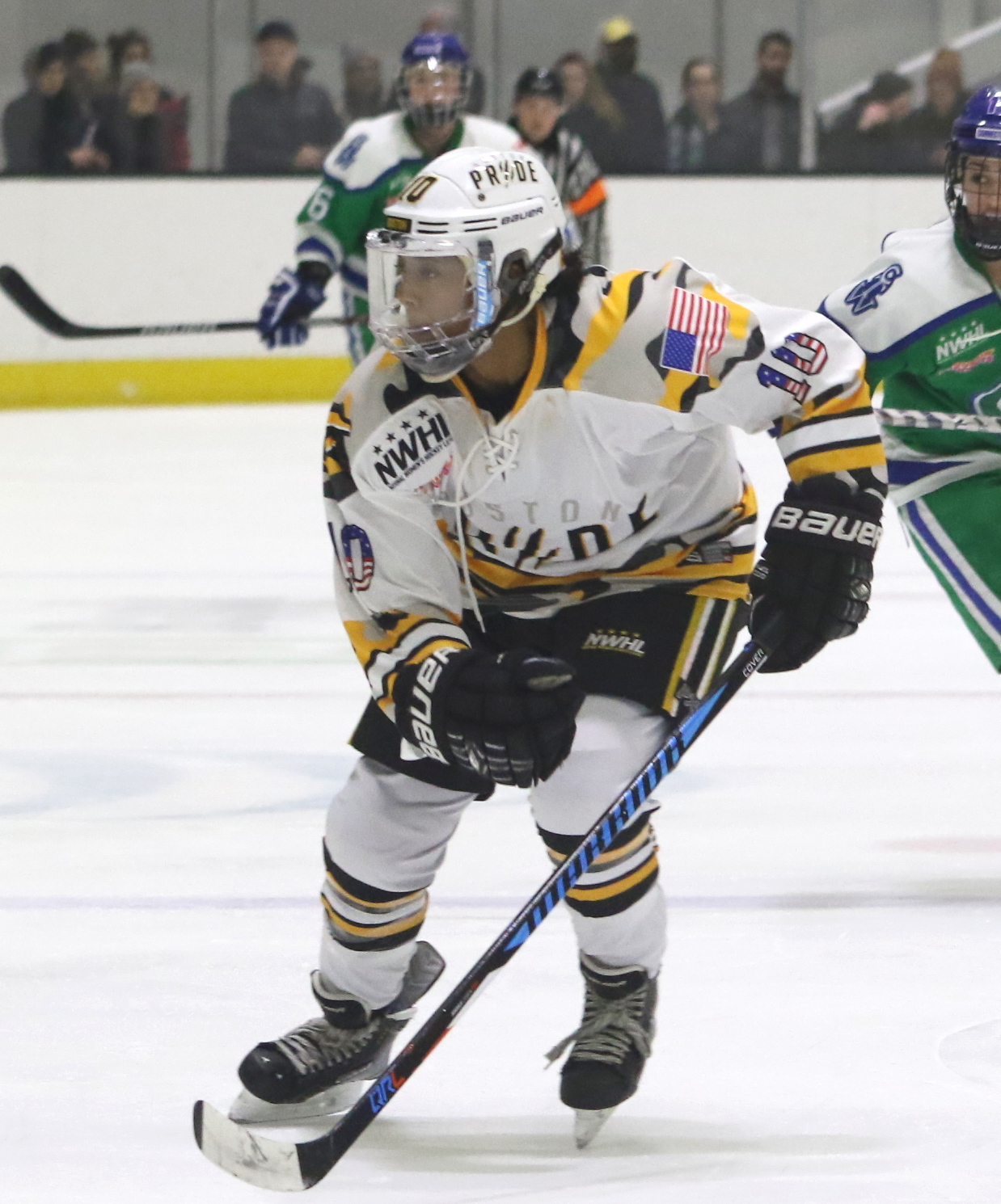 Blake Bolden playing for the Boston Pride in the 2016-2017 NWHL season